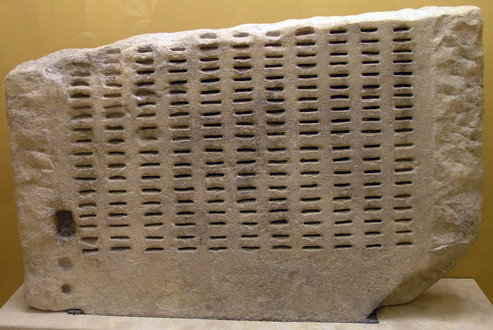 Kleroterion. This device was used for the jury selection system in Athens. Bronze identification tickets were inserted to indicate eligible jurors who were also divided into tribes. By a random process, a whole row would be accepted or rejected for jury service. There was a kleroteria in front of each court. Ancient Agora Museum in Athens.